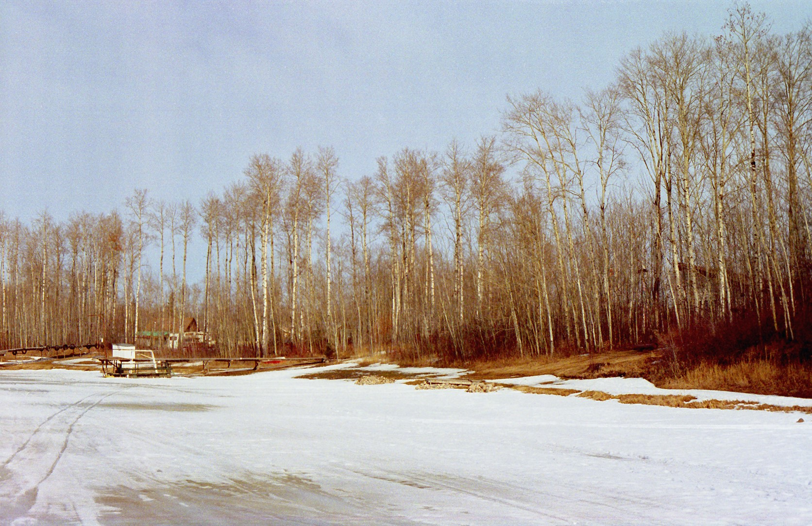 West side of Lake Isle in winter, Alberta, Canada